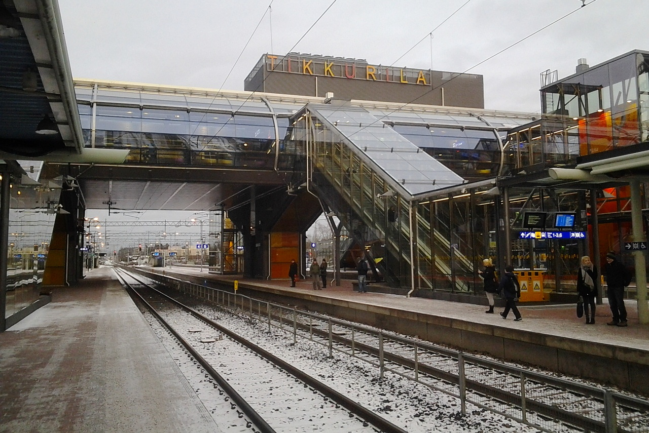 Tikkurila railway station.